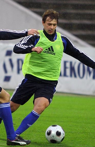 Dmitry Sychev training for Russian national football team